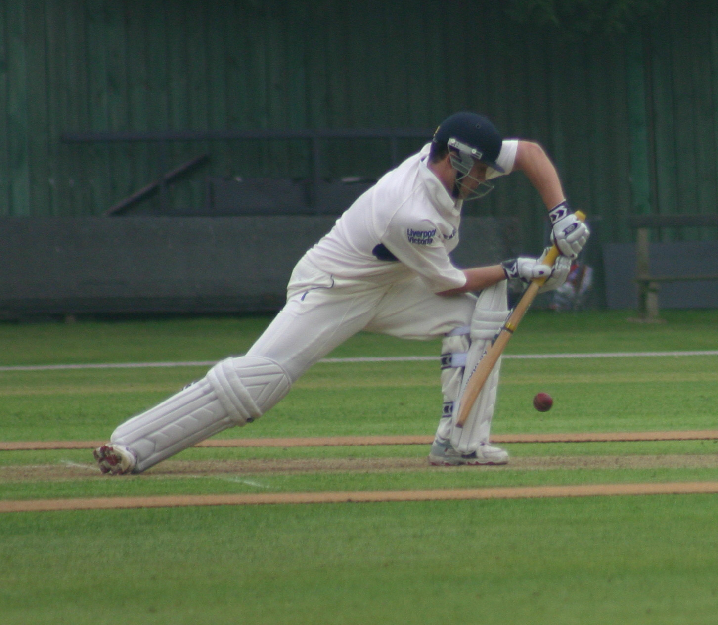 Jonathan Trott batting for Warwickshire against Cambridge UCCE, at Fenner's cricket ground in Cambridge, 15 April, 2006. Photograph taken by Stephen Turner and released under the GFDL.